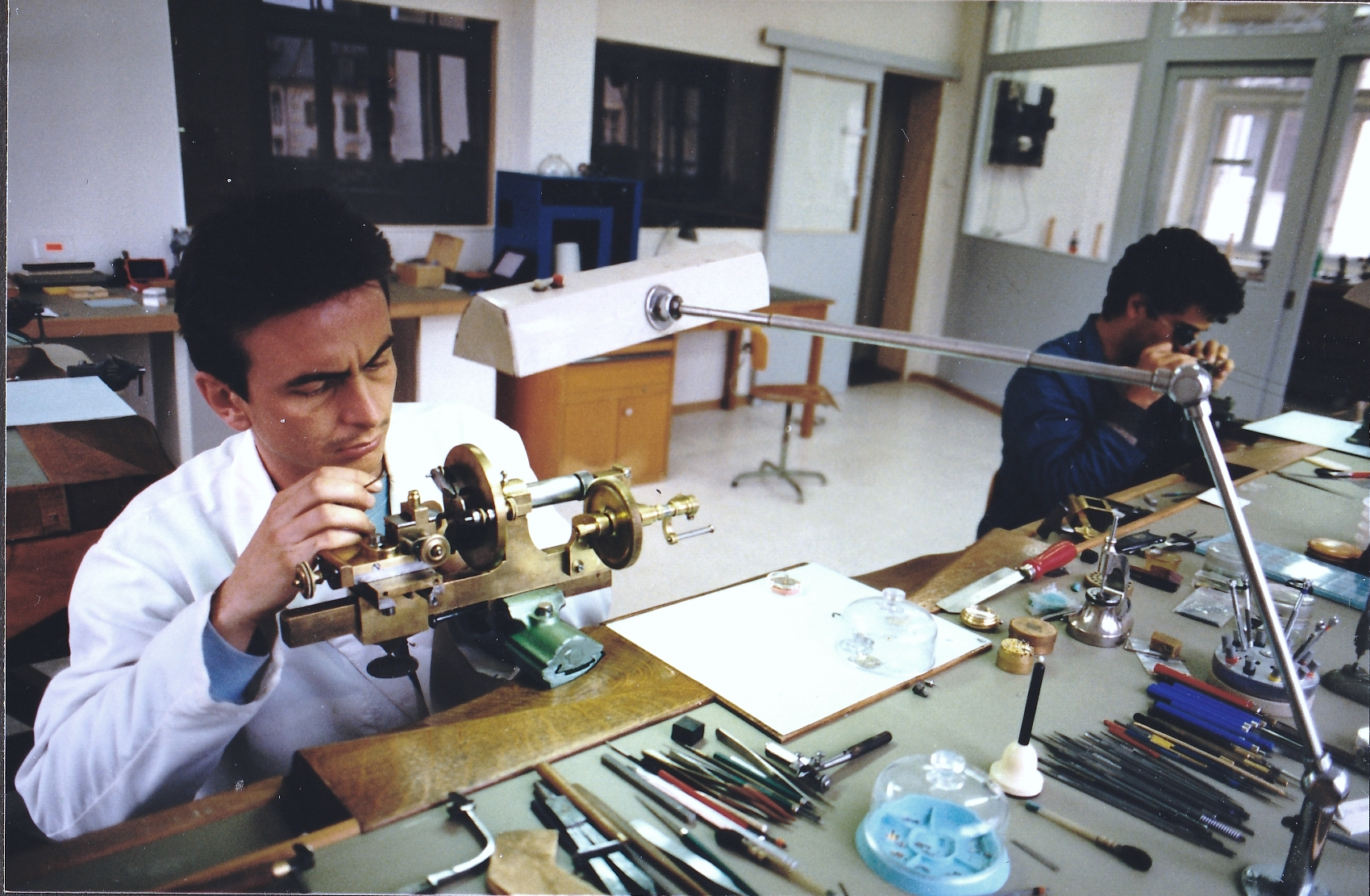 The watchmakers at work